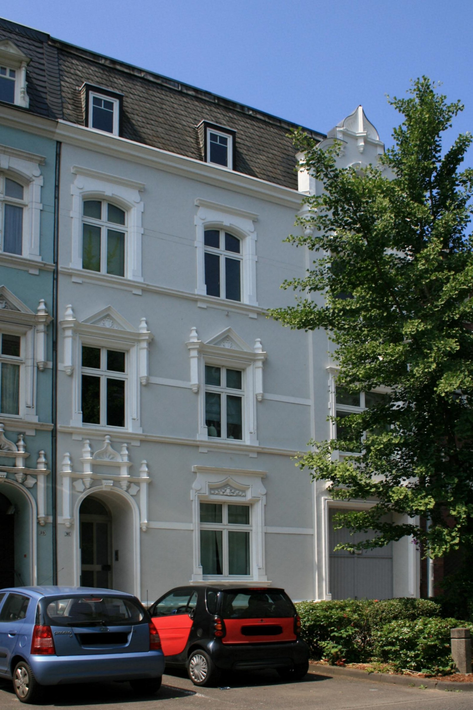 Cultural heritage monument No. B 028 in Mönchengladbach